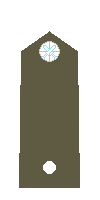 Rang insignia of the Czech Republic Army (rank group: enlisted men), here shoulder strap of the "Svobodnik/ no equivalent" – Army/ ground forces (OR-1a, since 2011).